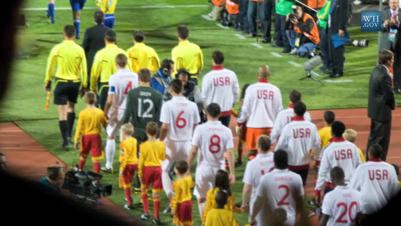 The teams head out for the USA and England group stage match during the 2010 FIFA World Cup. Screenshot taken from official White House video.